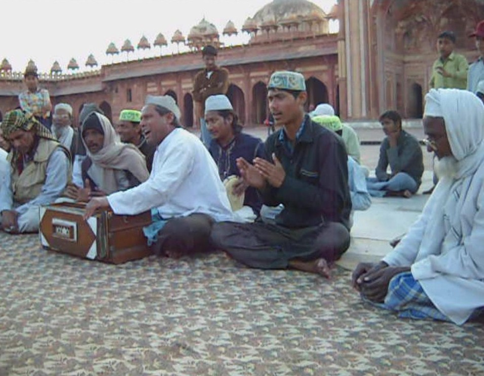 Qawali at the tomb of Salim Chisti at Fatehpur Sikri, India (still from video)